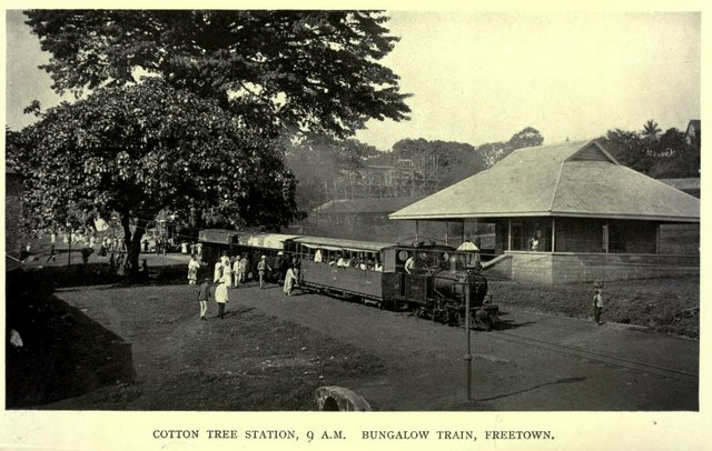 “Freetown, Cotton Street Station, Bungalow Train” - from the book Human Leopards; an account of the trials of Human Leopards before the Special Commission Court.